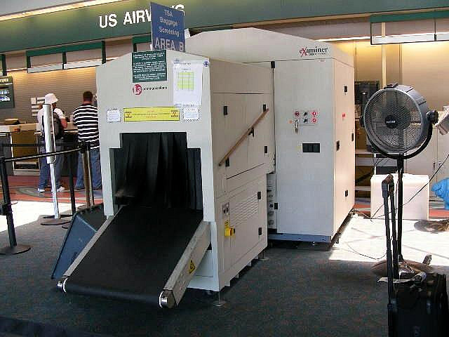 Machine apparently made by L3 communications. A local company